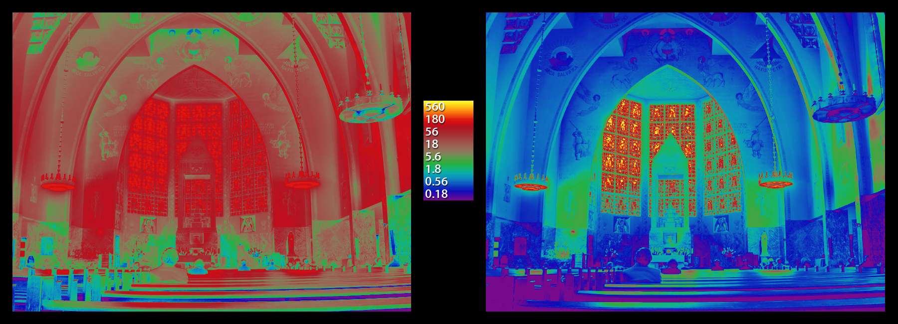 Igreja Nossa Senhora de Fatima, Lisbon. False color images of radiance in HDR image (top) and pixel values in tonemapped LDR image (bottom). Values are in arbitrary units.